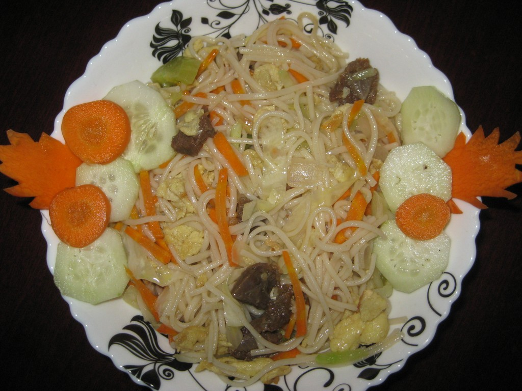 Bangladeshi style home-made beef chow mein